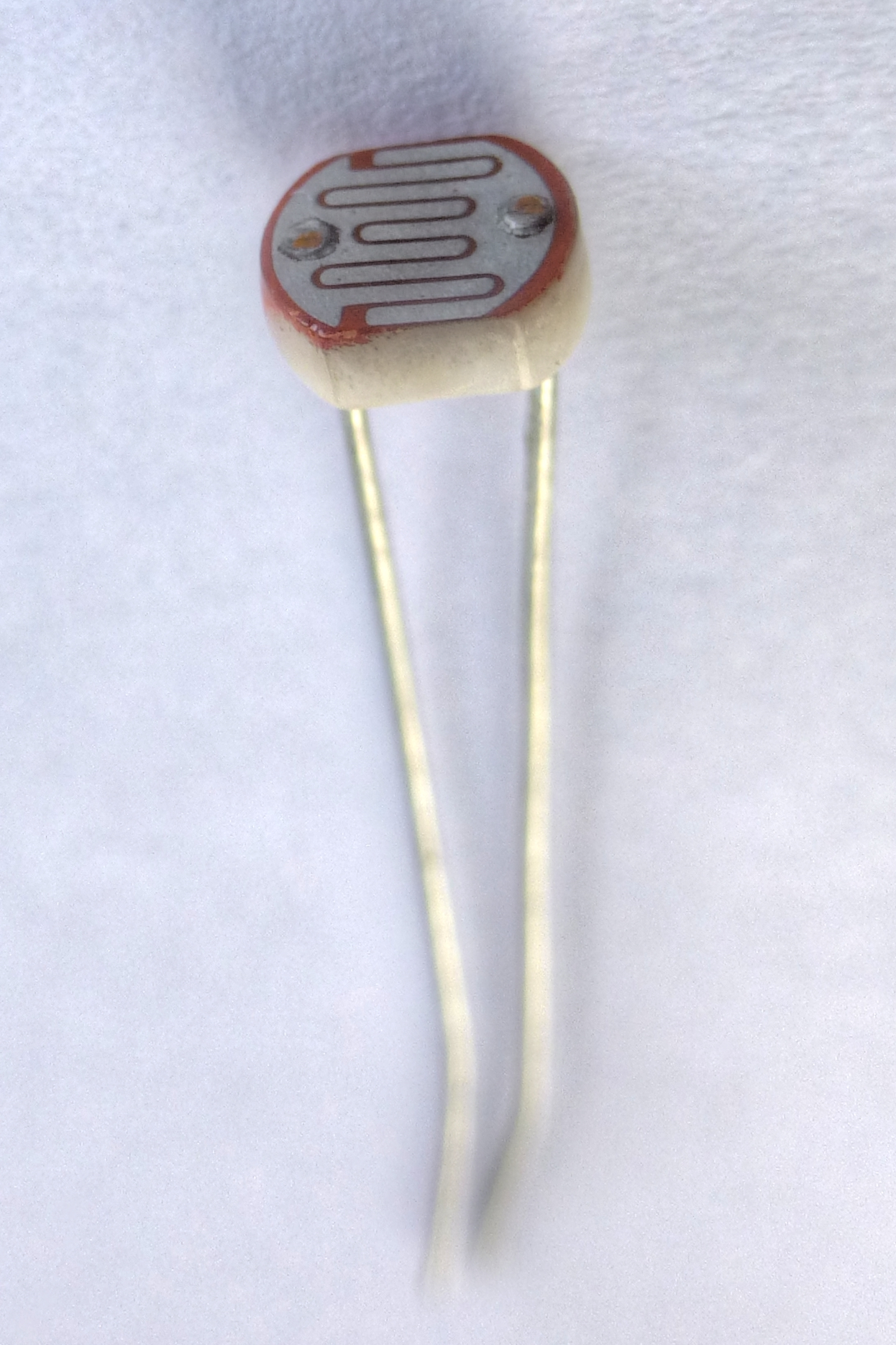 Photoresistor - LDR